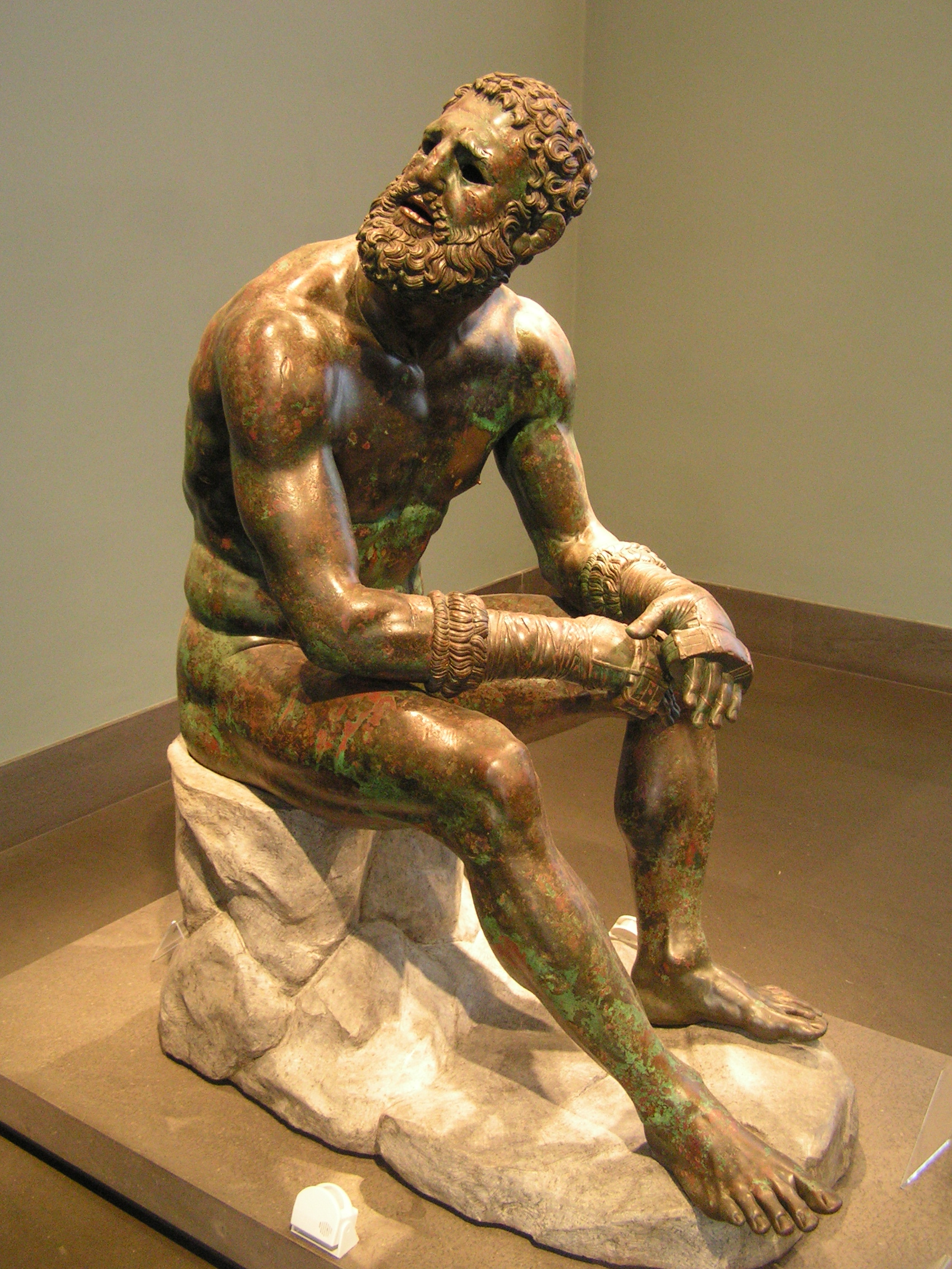 So-called “Thermae boxer”: athlete resting after a boxing match. Bronze, Greek artwork of the Hellenistic era, 3rd-2nd centuries BC (the boulder is modern and replicates the ancient one). From the Thermae of Constantine.